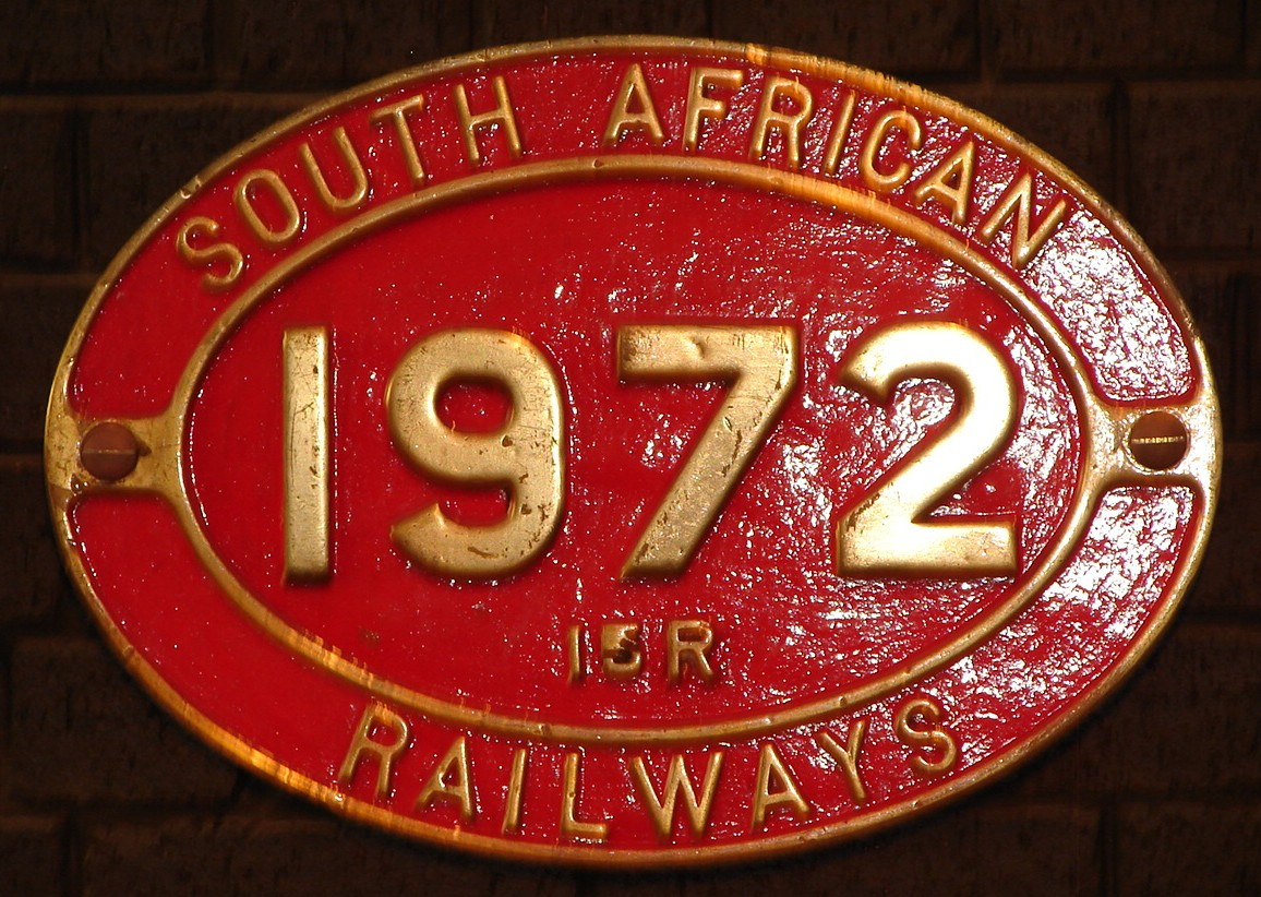 SAR Class 15BR no. 1972 (4-8-2) number plate, incorrectly inscribed 15RLocation: George, Western Cape